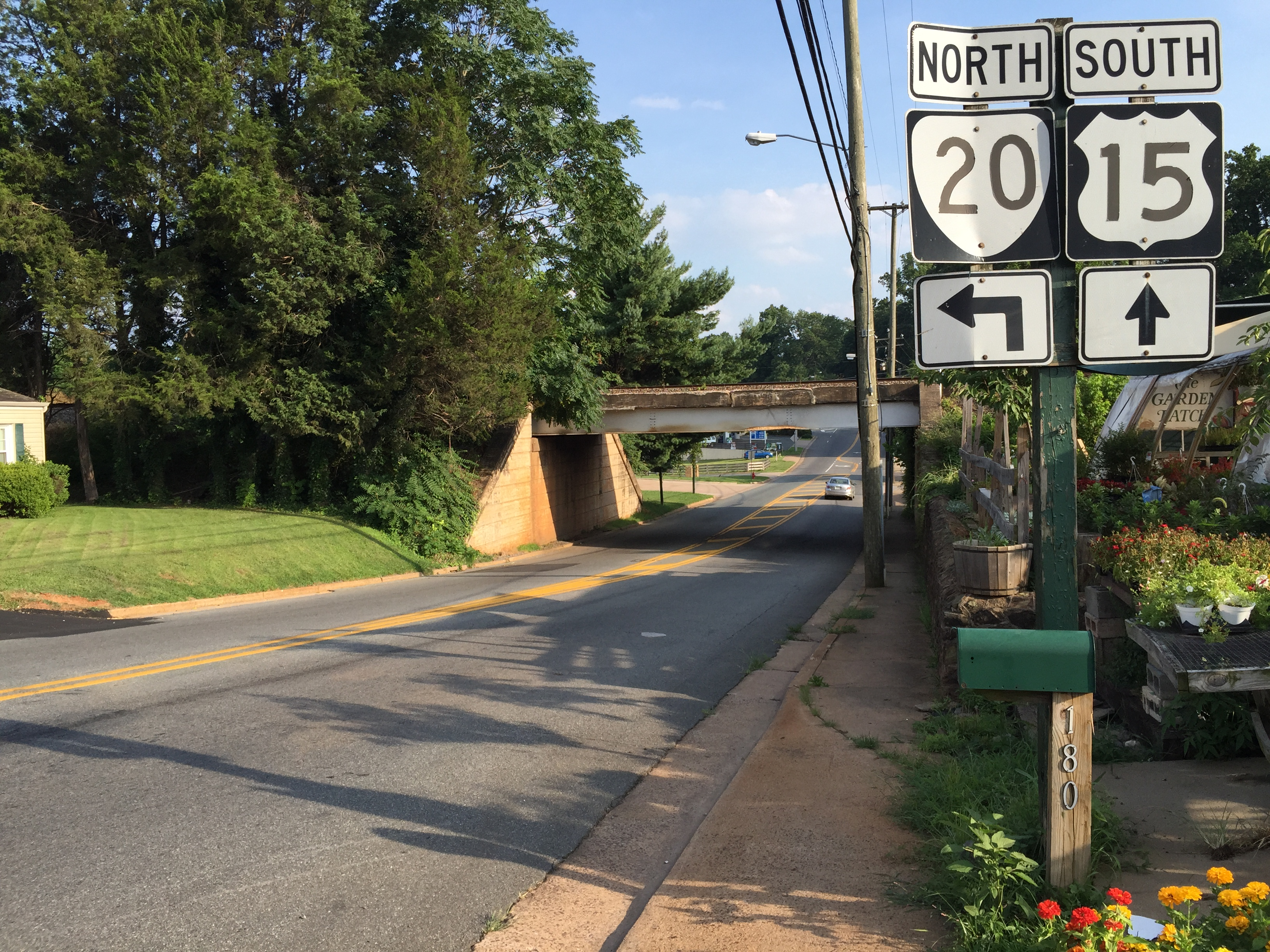 View south along U.S. Route 15 and north along Virginia State Route 20 (Caroline Street) between Old Main Line and Lindsay Drive in Orange, Orange County, Virginia